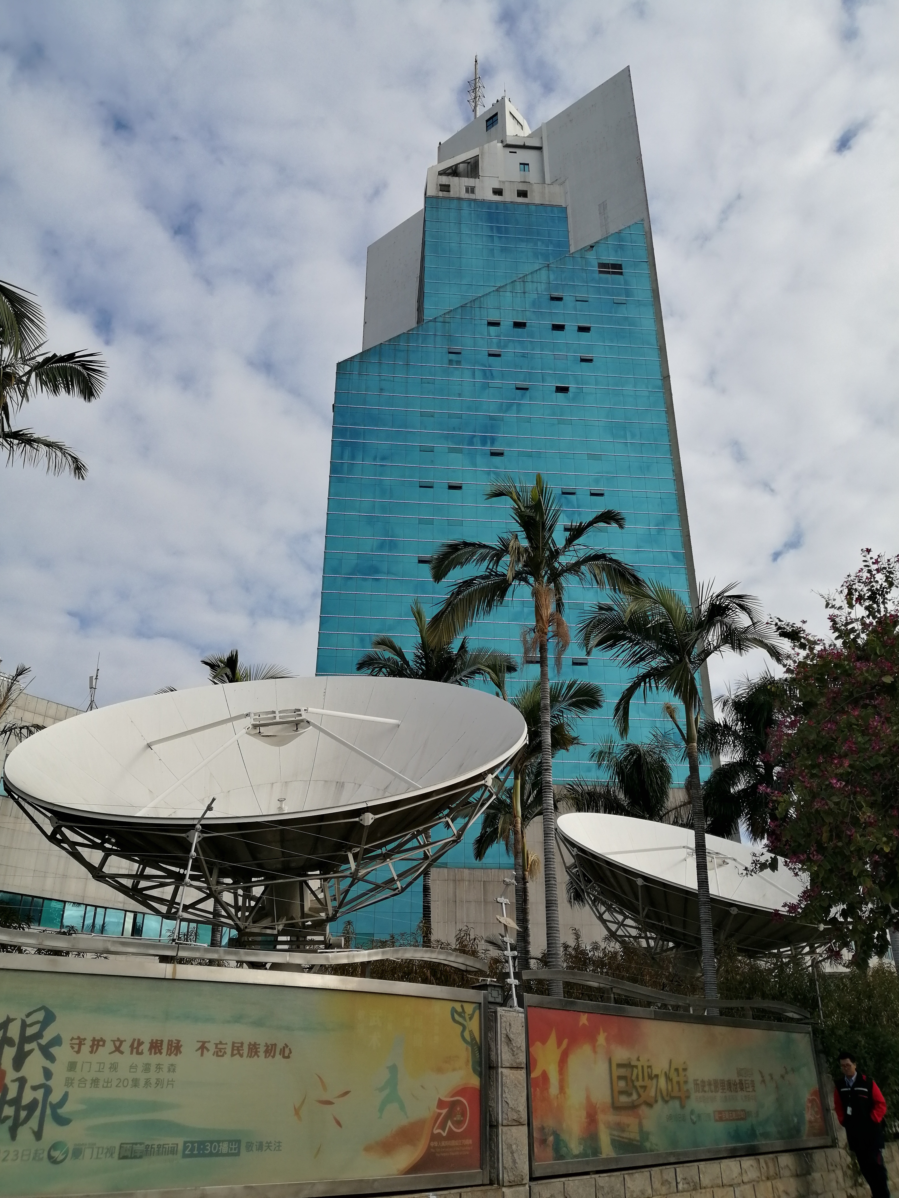 Xiamen Media Group headquarters building, located on Hubin North Road. 中文（中国大陆）: 厦门广播电视中心（厦门广电集团总部），位于思明区湖滨北路